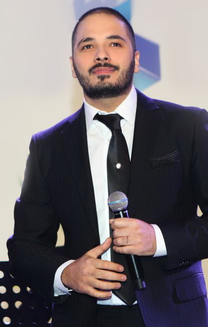 Ramy Ayach in Dubai - March 22, 2013 (Cropped)